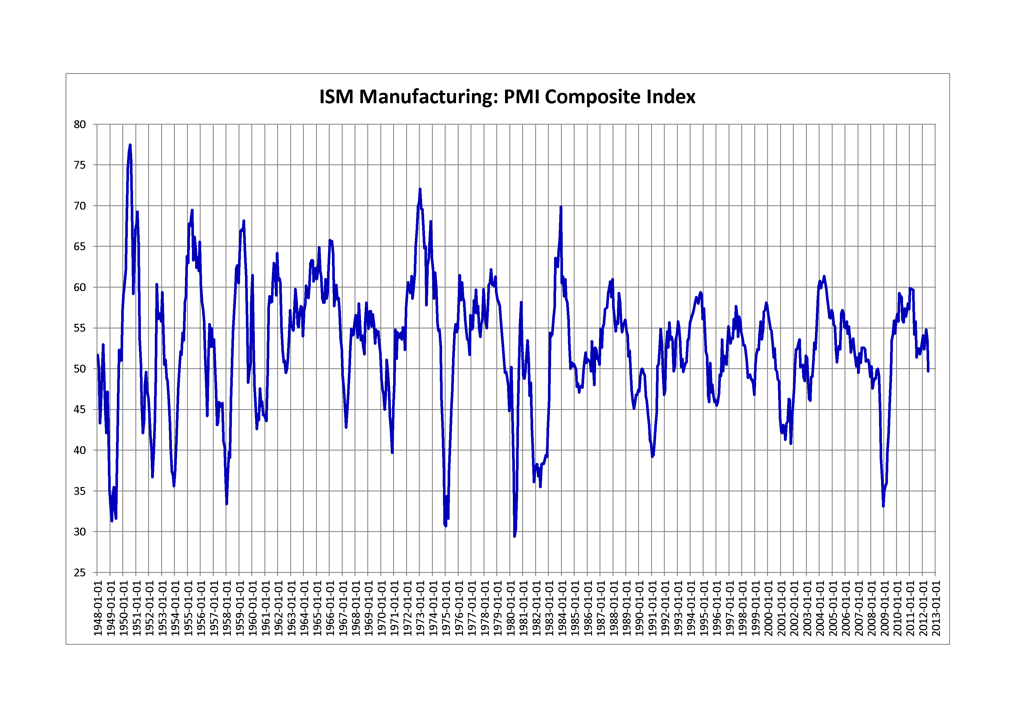 ISM Purchasing Managers Index from January 1948 to June 2012 (monthly data)